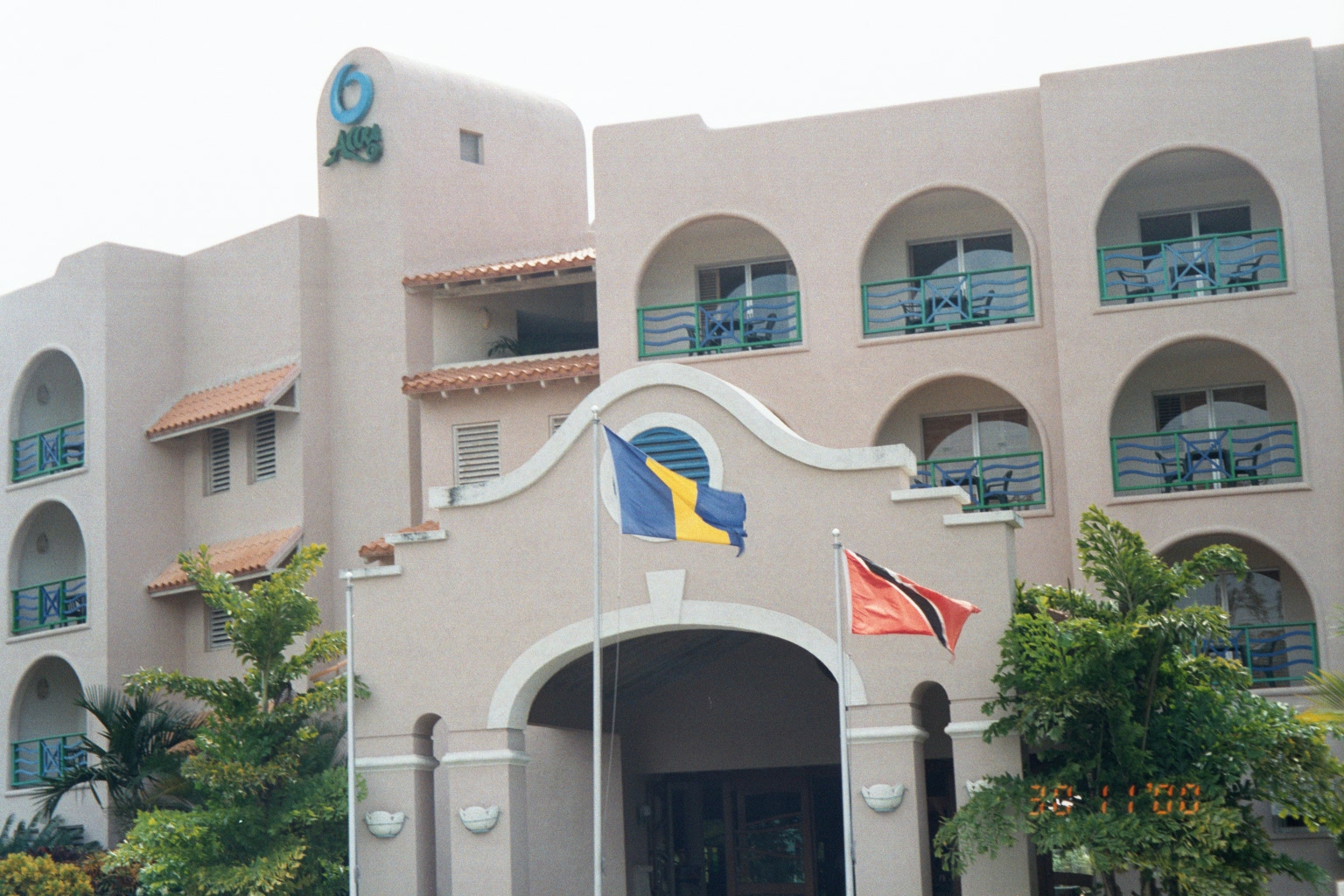 Accra Beach Hotel, Resort, and Spa, Highway 7, Barbados.